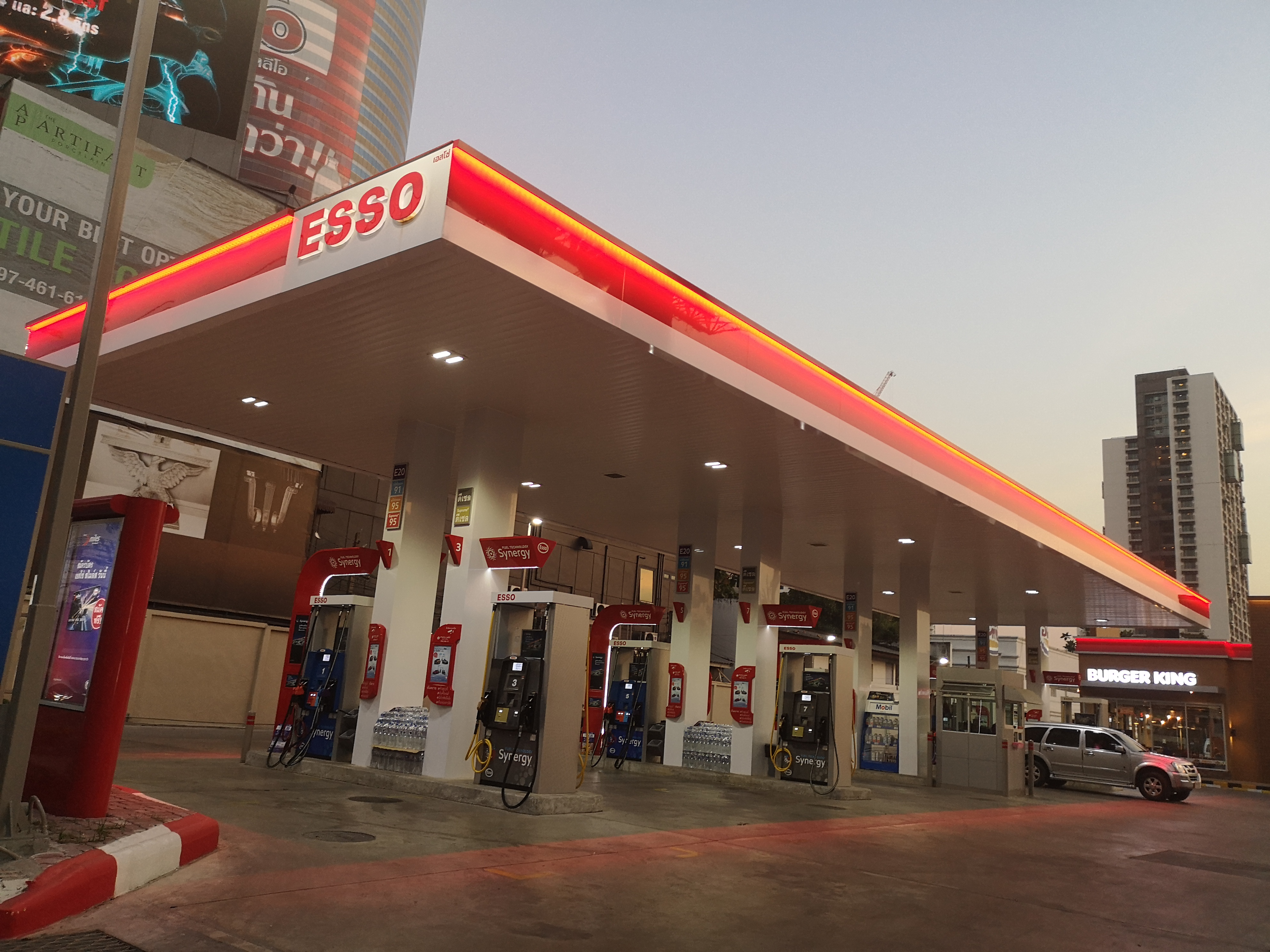 Esso gas station on Petchburi road, Thailand.